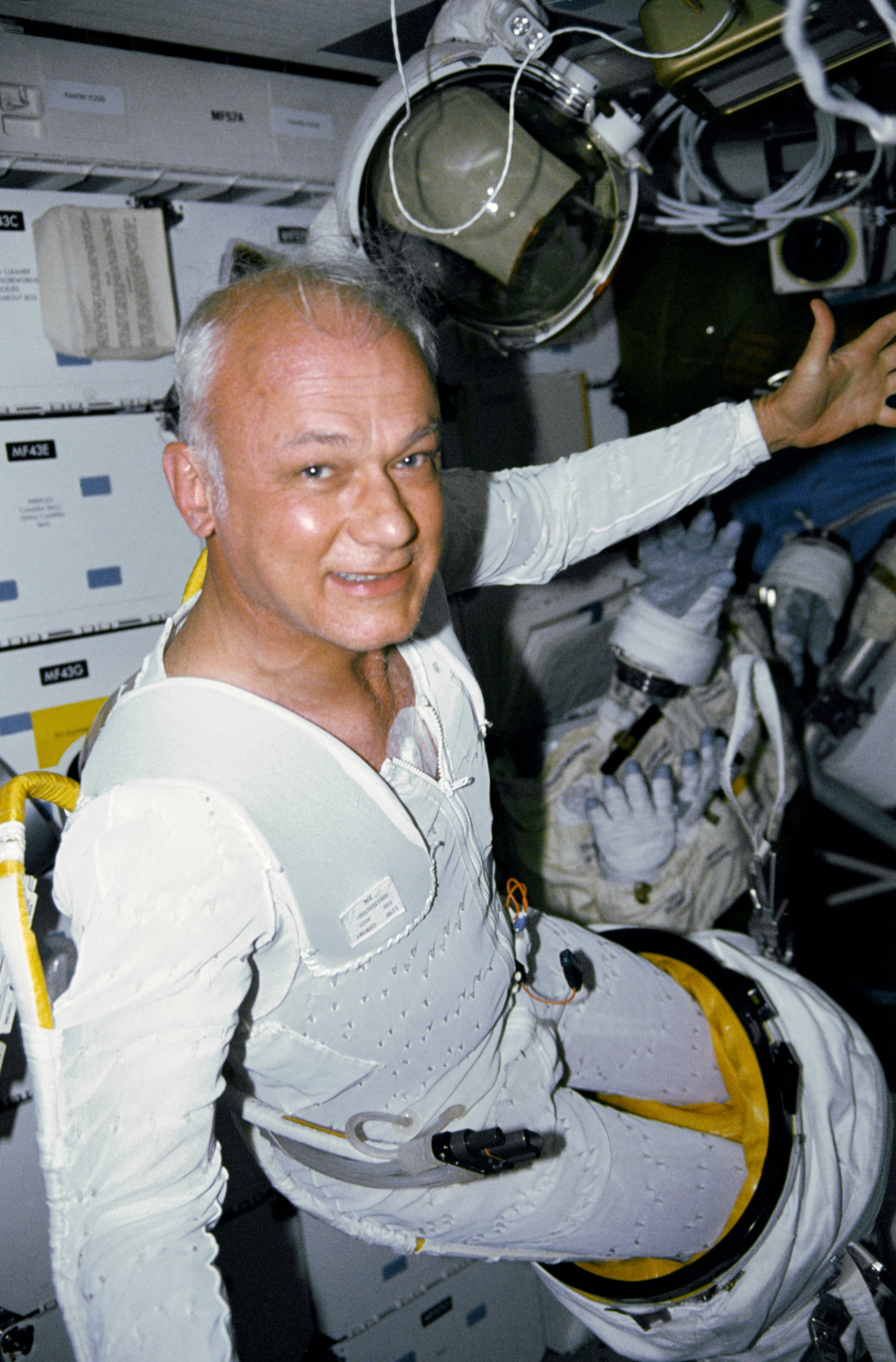 STS-31 Mission Specialist Bruce McCandless II, wearing liquid cooling and ventilation garment (LCVG), works his way out of the extravehicular mobility unit (EMU) lower torso on the mid deck of Discovery. McCandless was in a standby mode to perform a spacewalk if needed to support Hubble Space Telescope (HST) deployment and post-deployment tasks on April 25, 1990. The deployment of the telescope was executed flawlessly, andMcCandless' assistance was not needed.